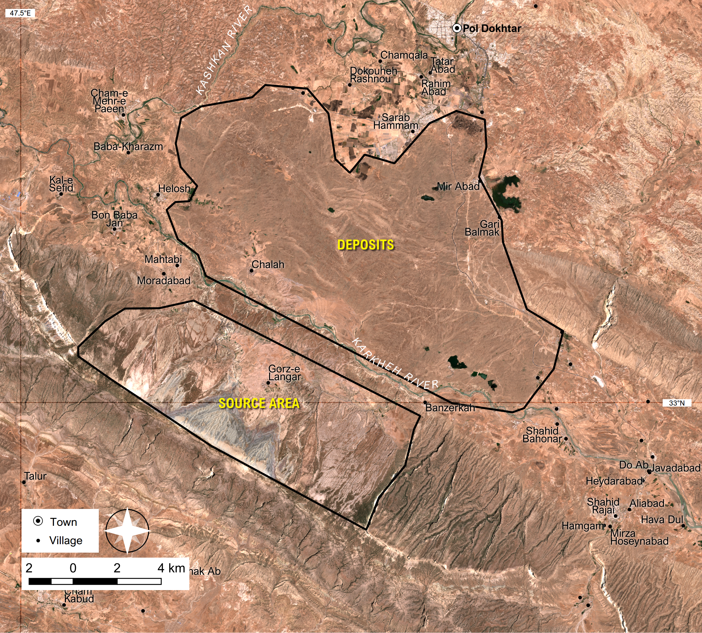 The image shows the extent of a pre-historic landslide in southwestern Iran, on Kabir Kouh range, in Darreh Shahr county, Ilam Province.